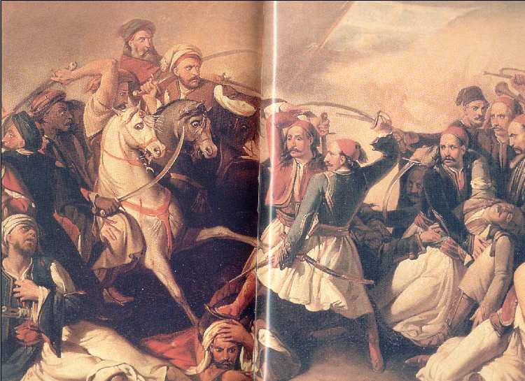 Markos Botsaris and his men engaging Ottoman troops at Karpenision.